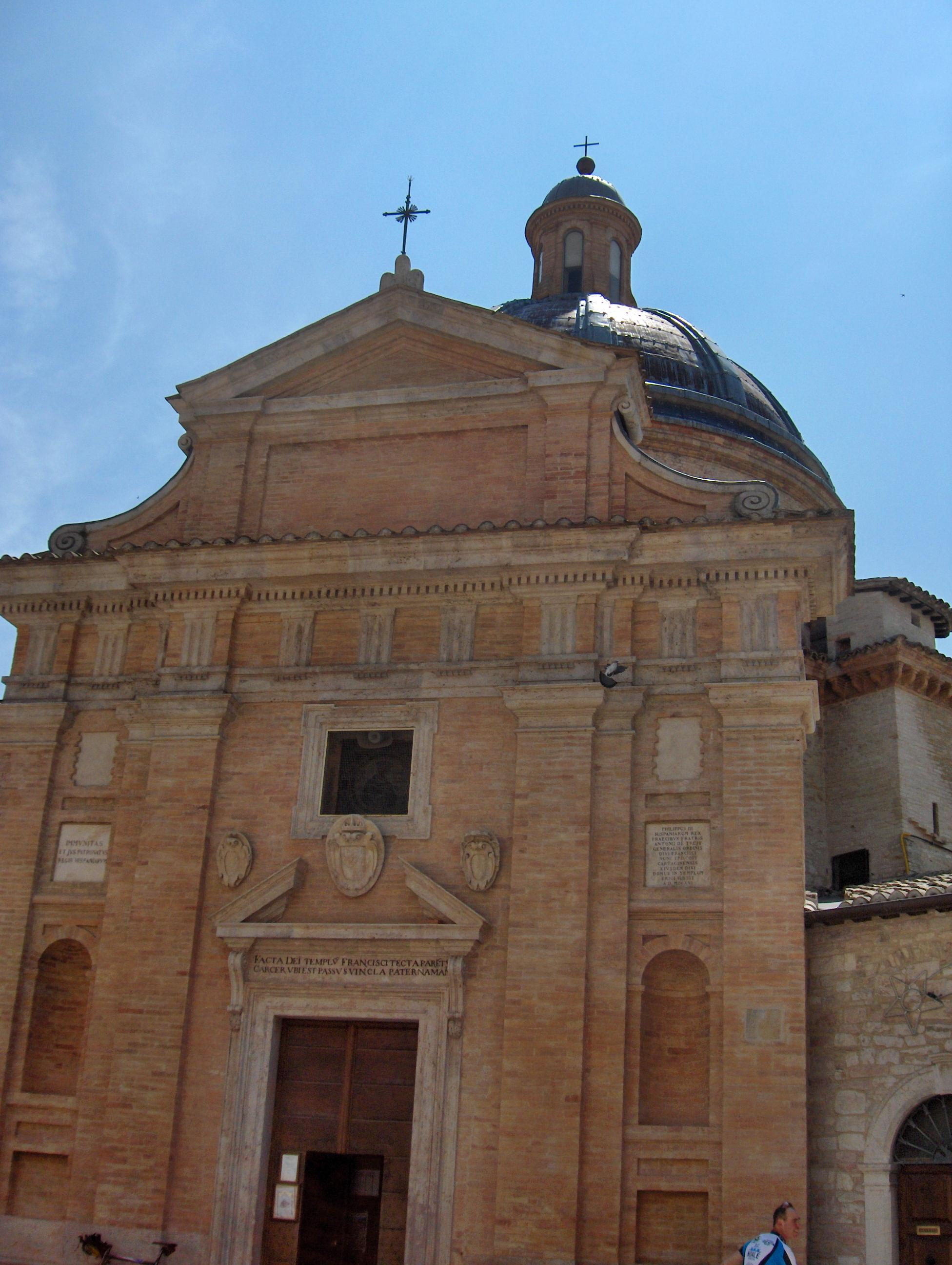 Façade of the Chiesa Nuova, Assisi, Italy